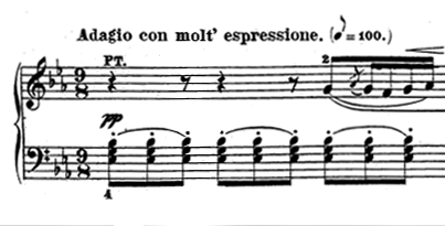 Incipit of the 2th movemnt from the Piano Sonata No. 11 (Beethoven) in B-flat major, Op.22.